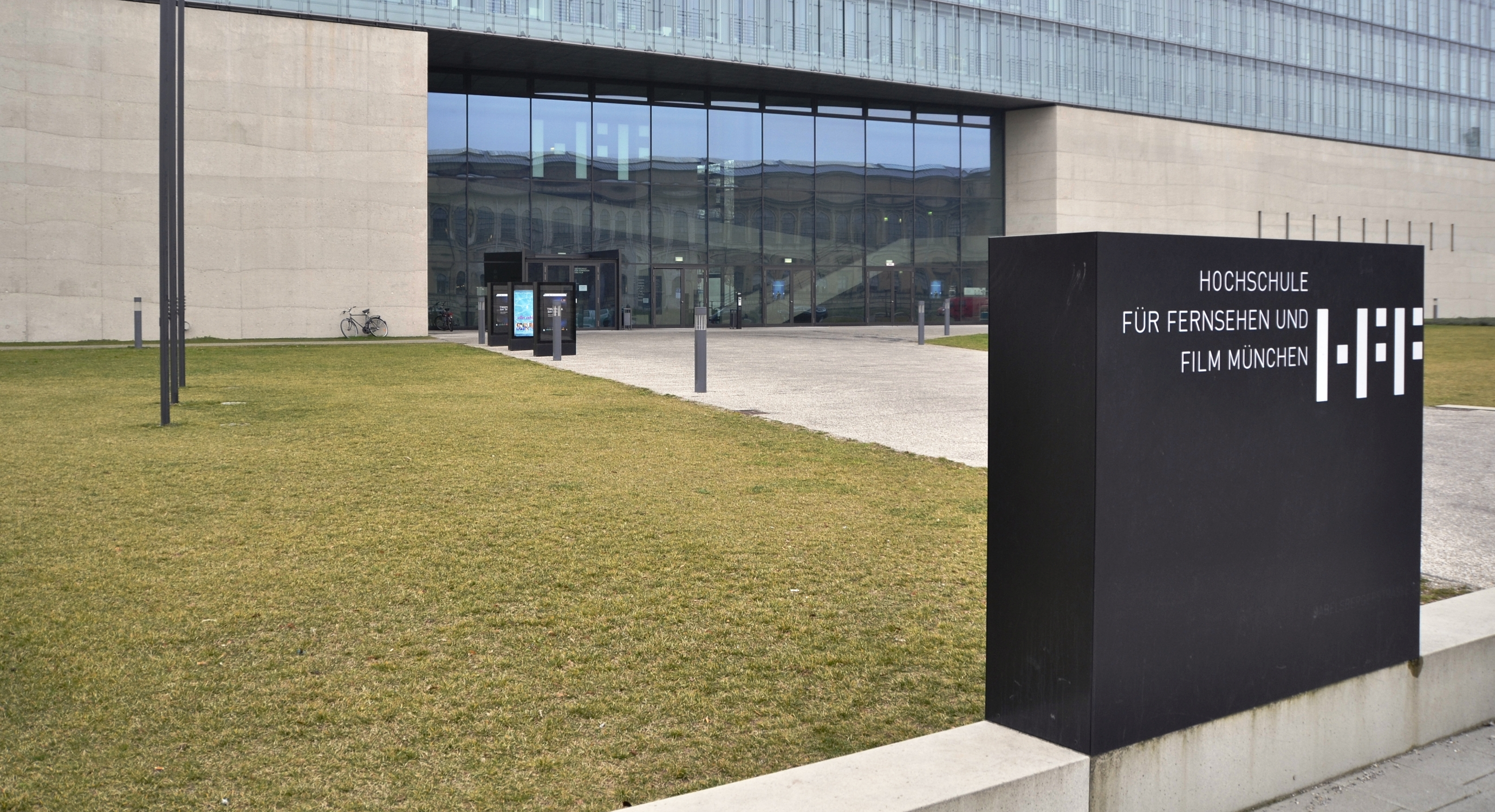 The main entrance of the HFF in Munich, Germany.